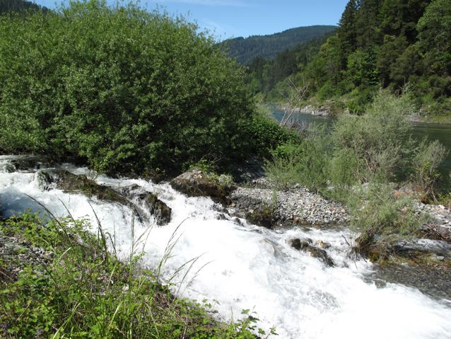 Photo of rocky falls on Boise Creek just above confluence with the Klamath River